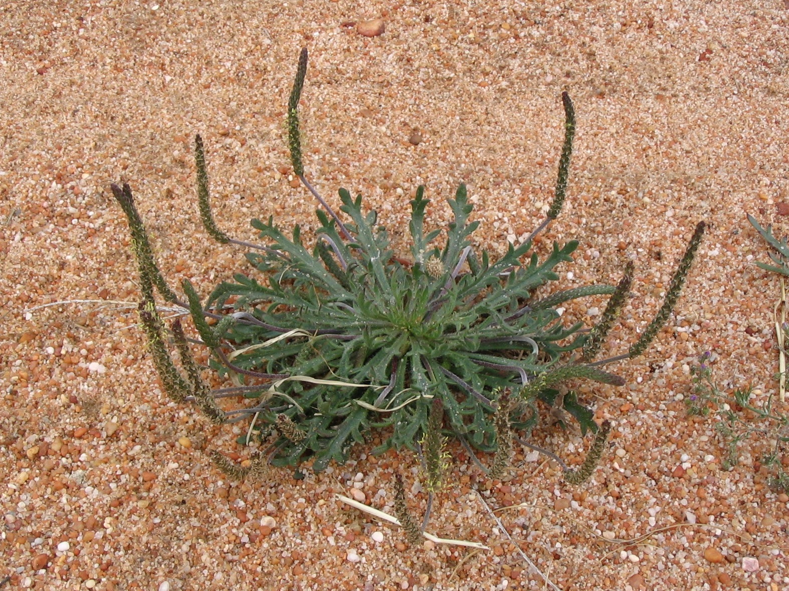 Plantago coronopus